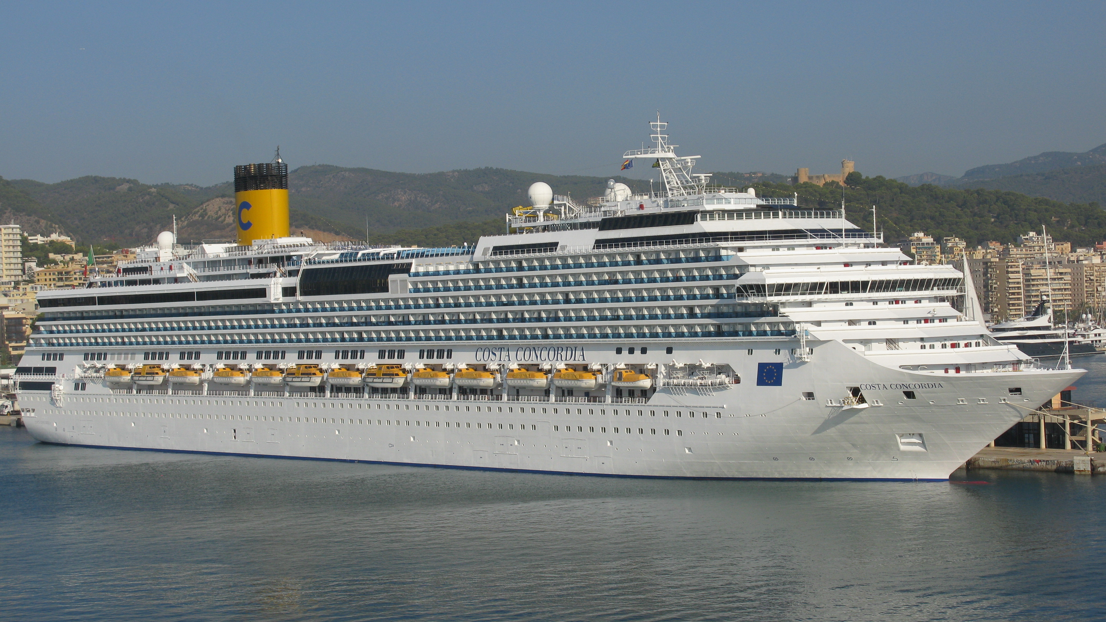 Costa Concordia moored in the port of Palma, Majorca, Spain.